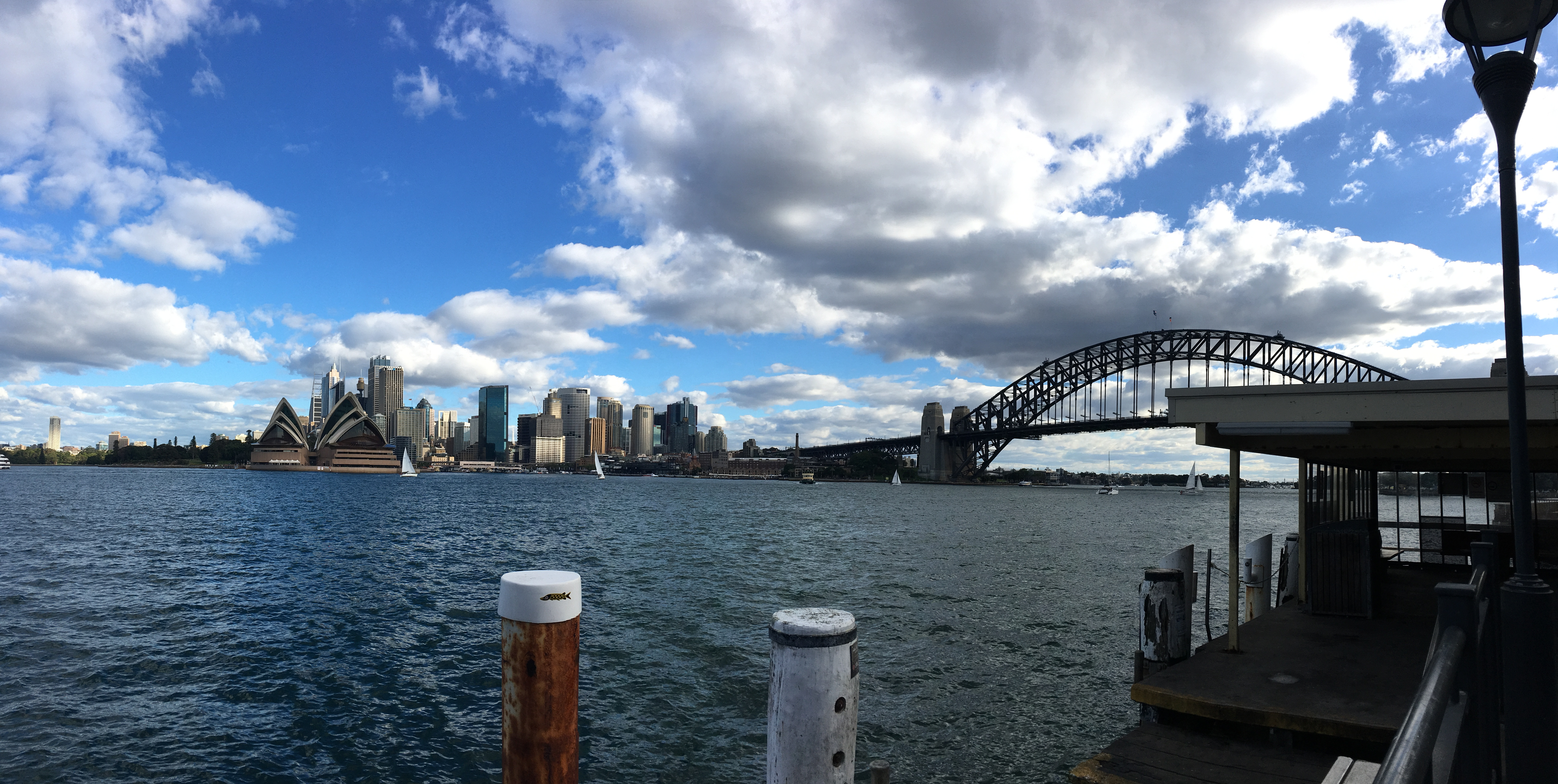 Sydney Harbour Bridge and Sydney Opera House 中文（中国大陆）: 悉尼海港大桥与歌剧院